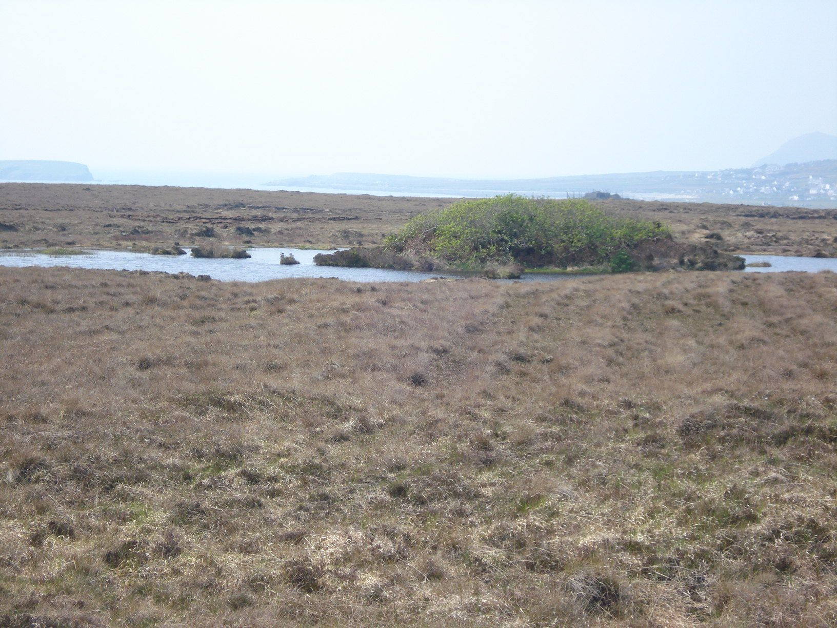 Overgrown crannog, Achill Island. Dookinelly Bog